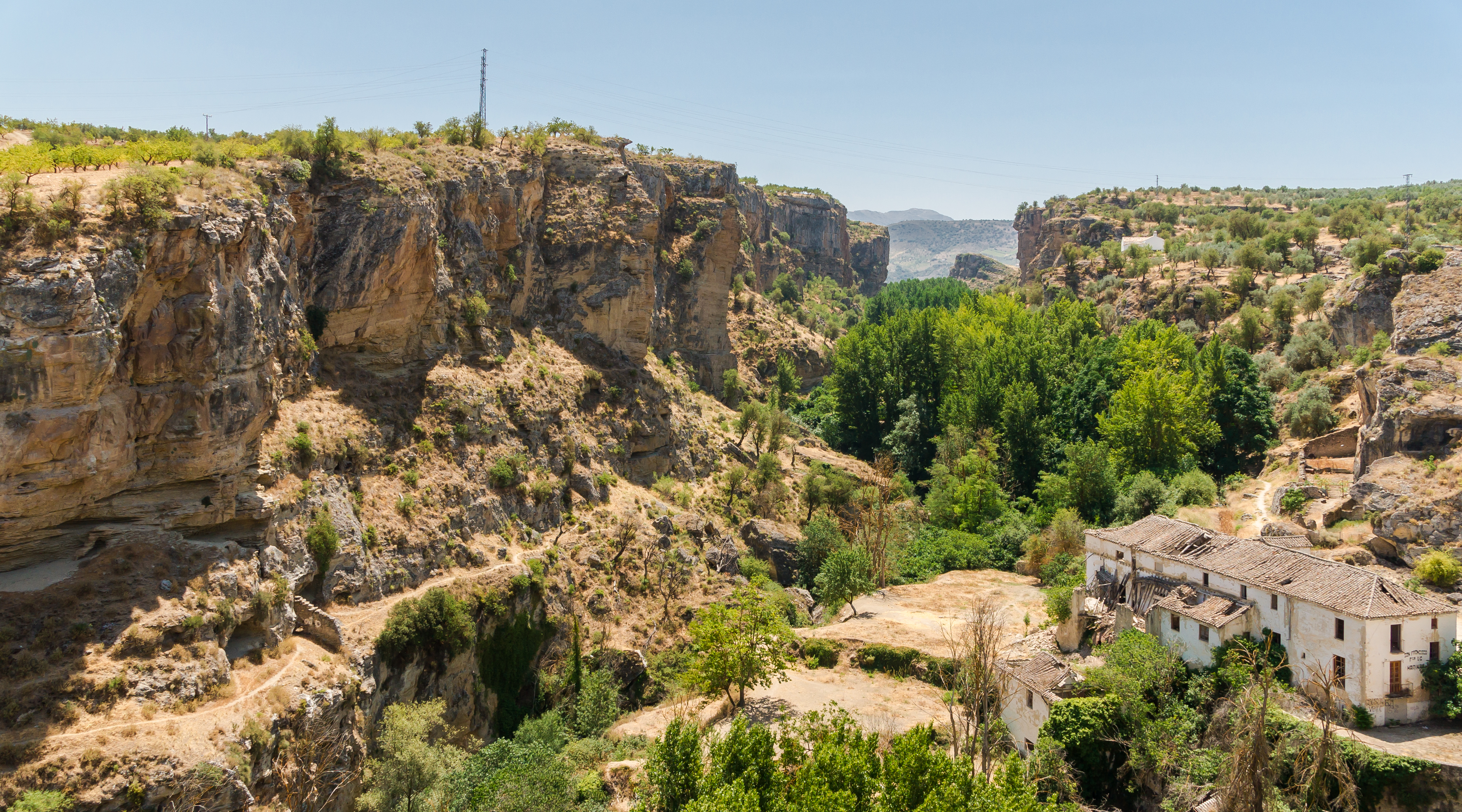 Rio Alhama canyon, Alhama de Granada, Andalusia, Spain